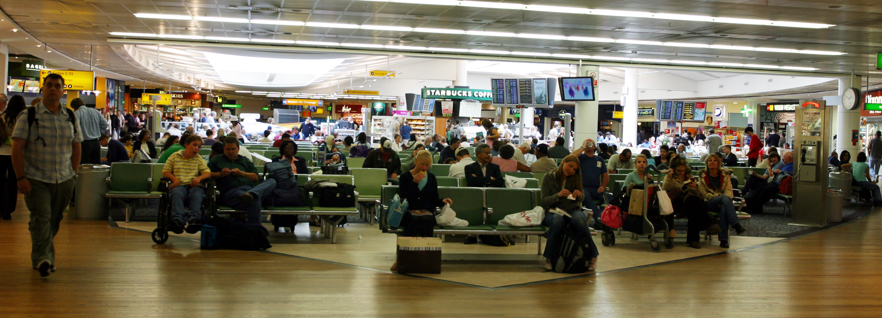 The waiting area at London Heathrow airport's terminal 3. Terminal 3 uses a centralised waiting area rather than seats at each gate.